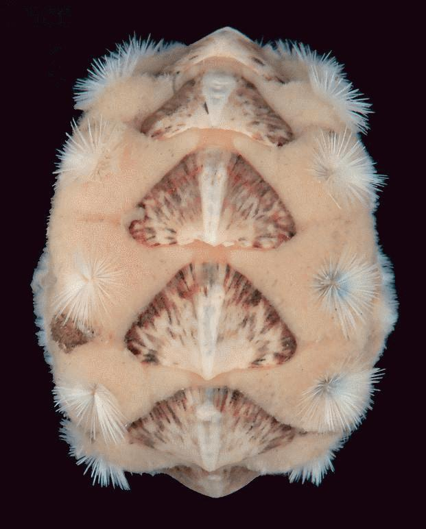 ZooKeys - Acanthochitona fascicularis Cut-out from original (Shallow polyplacophorans from the Azores - ZooKeys-312-023-g001.jpeg) shown below